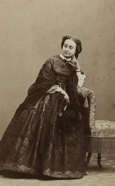 Charlotte Honorine Joséphine Pauline Bonaparte, Comtesse Pietro Primoli de Foglio (1832—1901)